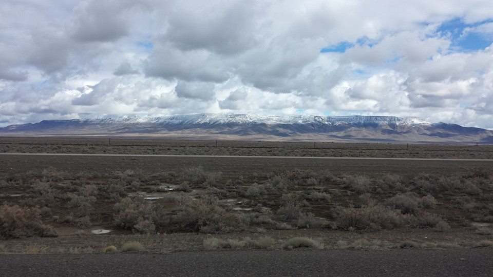 Mountains North of Battle Mountain